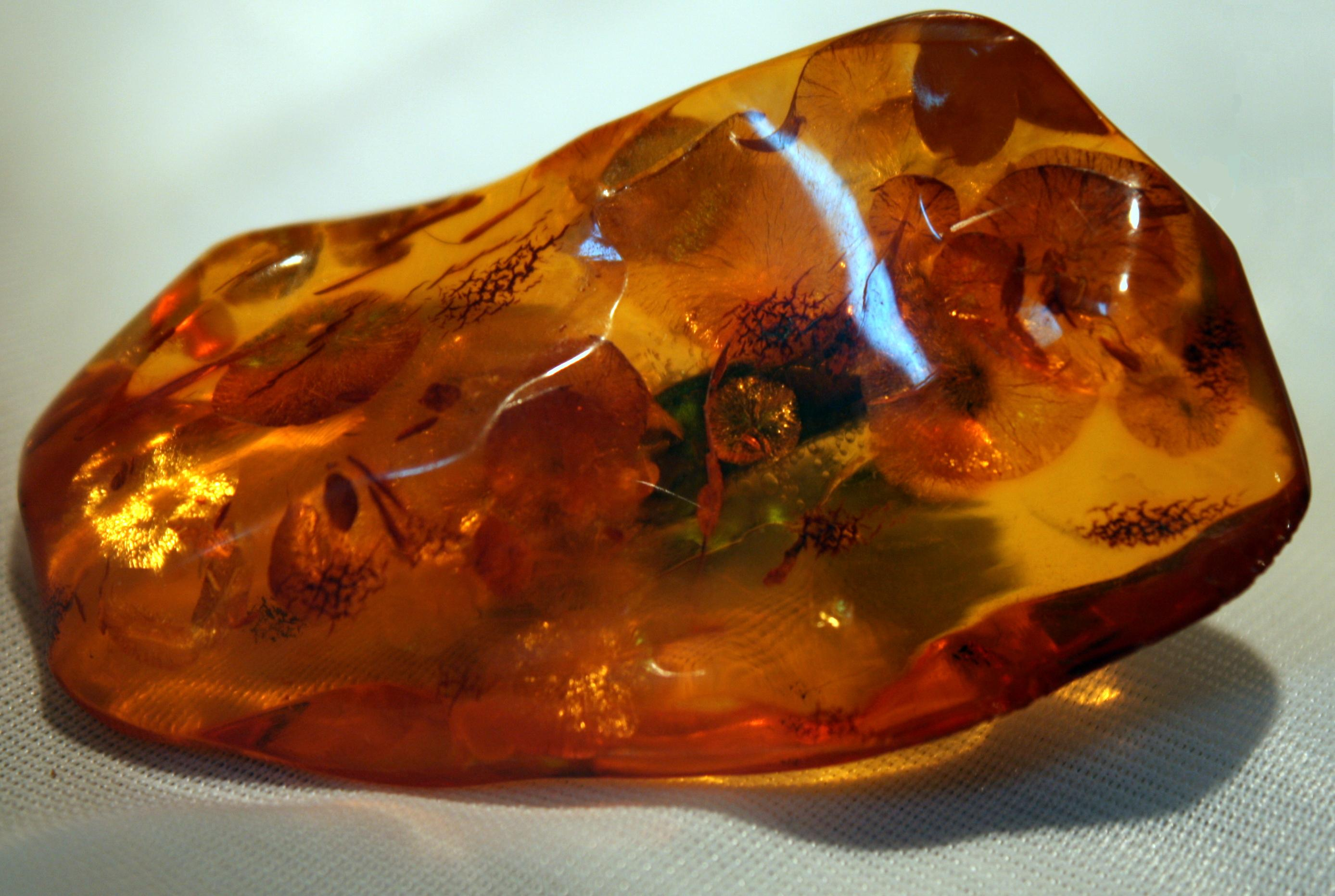 Jantar, Amber Museum